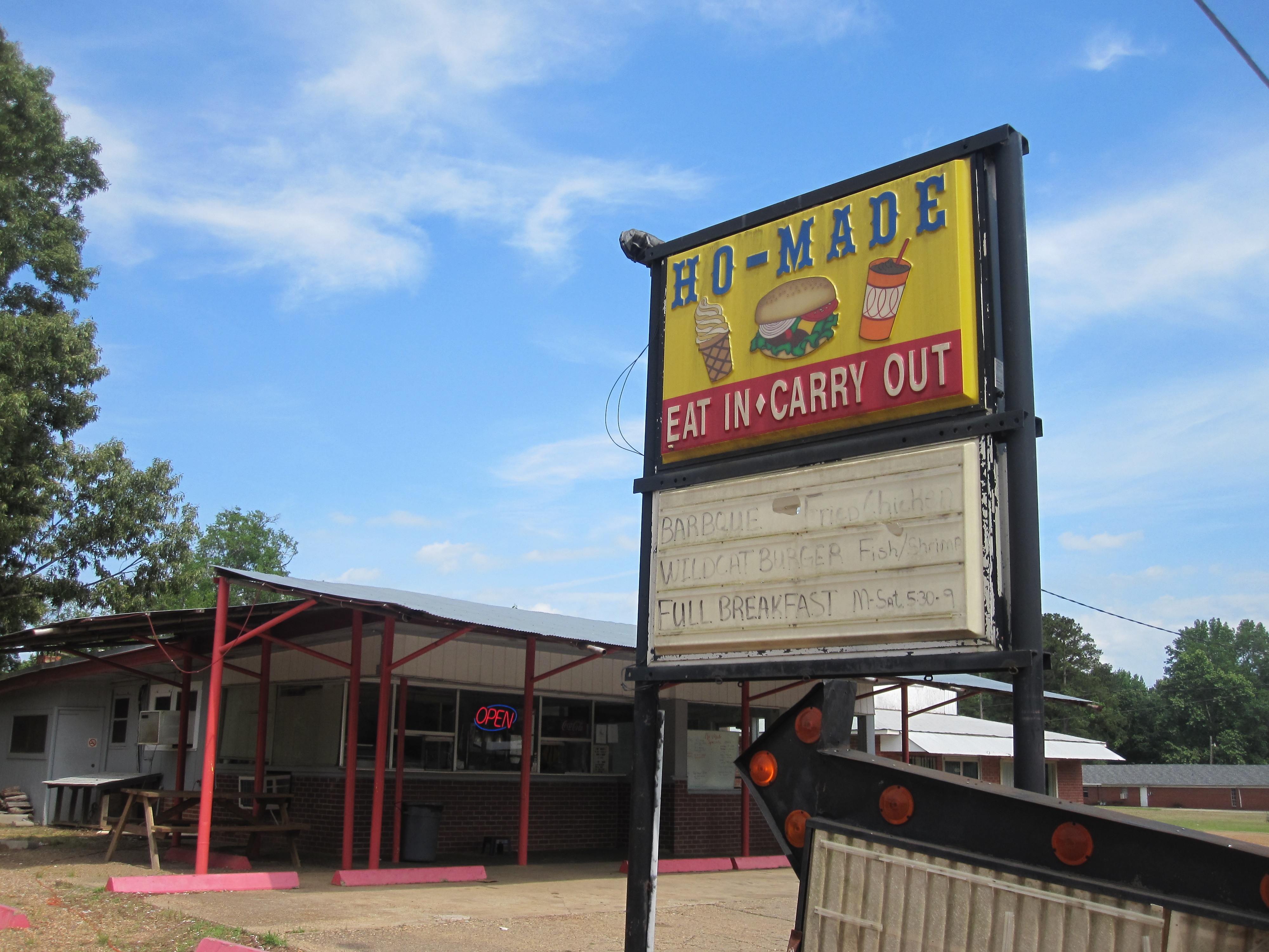 I took photo with Canon camera.